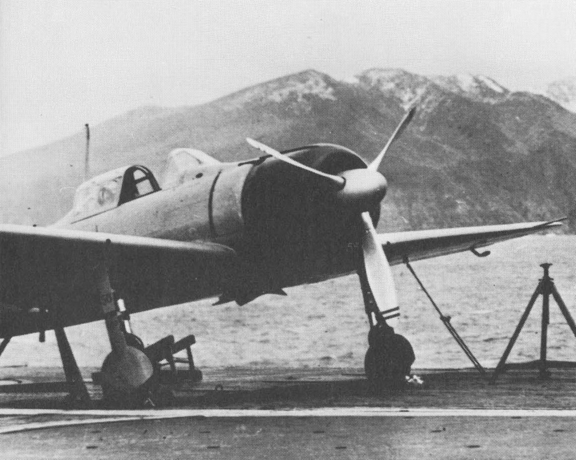 A Mitsubishi A6M Kansen AI-156 Zero fighter aboard the Imperial Japanese Navy aircraft carrier Akagi at Hitokappu Bay, Kuriles in November 1941 prior to departing for the attack on Pearl Harbor. Note the number 56 on the undercarriage fairing and lower engine cowling. The grid of black dots on the deck are, tie down points for securing the aircraft.